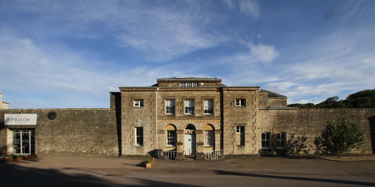 Former prison and police station at Northleach, Gloucestershire, seen from the southeast. It is now a museum.